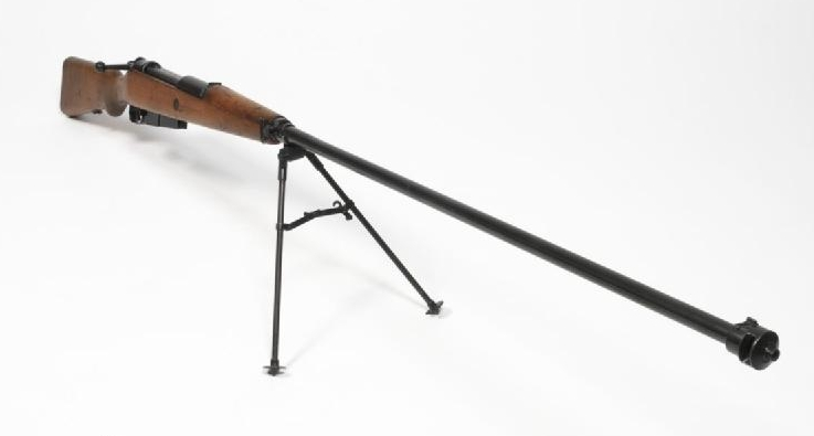 The karabin przeciwpancerny wzór 35 (kb ppanc wz. 35) or Maroszek anti-tank rifle was one of the better examples of early attempts made to provide infantrymen with portable anti-tank weapons. Before the advent of shaped-charge projectiles during the Second World War, these efforts were focused on the production of large rifles, intended to fire armoured piercing bullets. Most of the combatant powers employed anti-tank rifles during the Second World War, but the increasingly heavy armour of tanks severely limited their effectiveness. The Maroszek design at least had the benefit of relative lightness. It was also the first weapon of its type to enhance its penetrative power by the use tungsten-cored bullets.